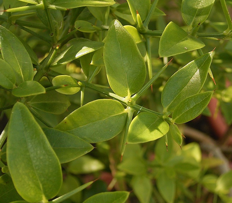 Azima tetracantha